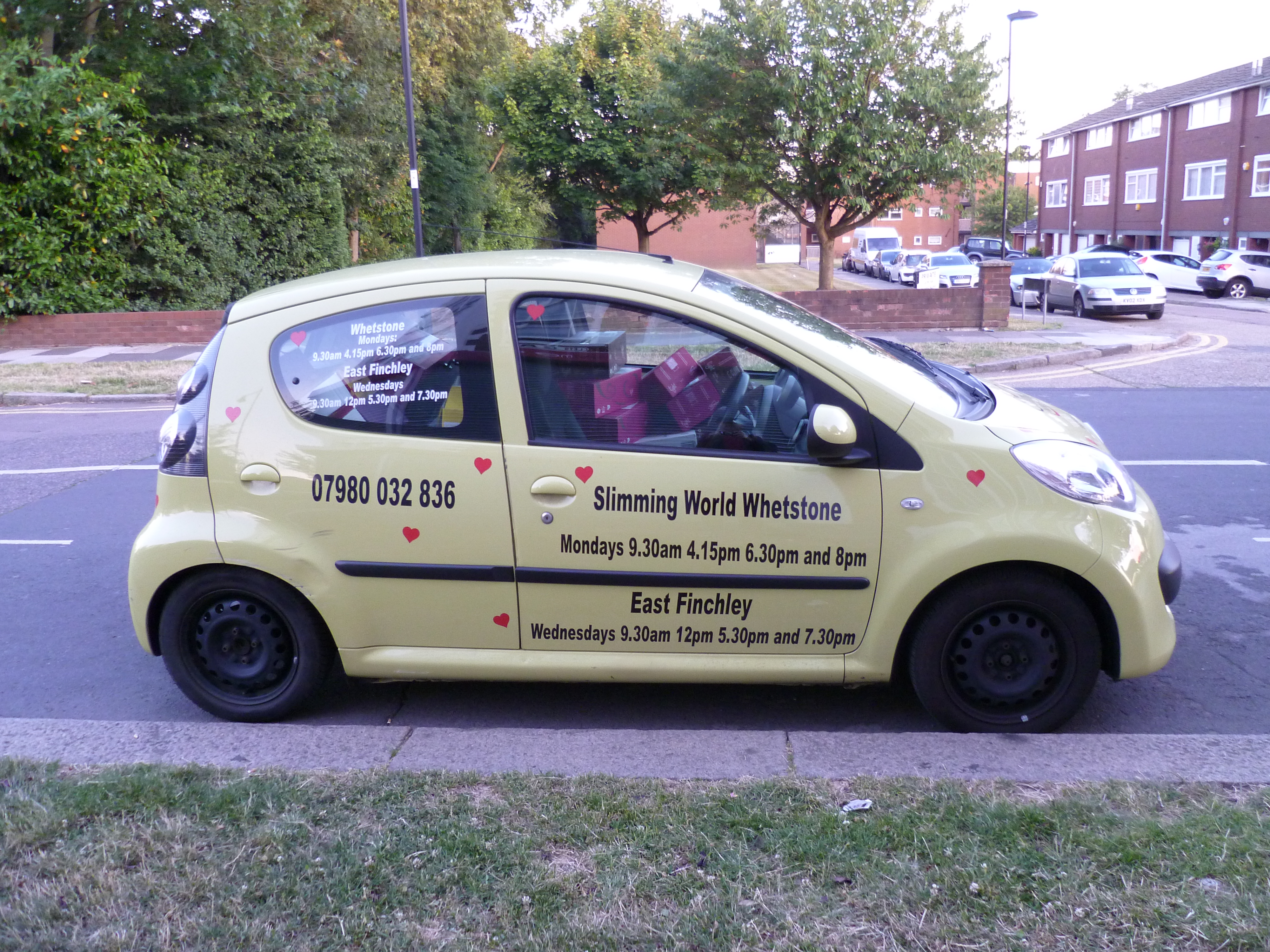 Slimming World Whetstone Citroën branded car